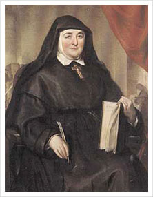 Portrait of Mary Aikenhead (1787–1858), foundress of the order Religious Sisters of Mercy by Nicholas Joseph Crowley (1819–1857)